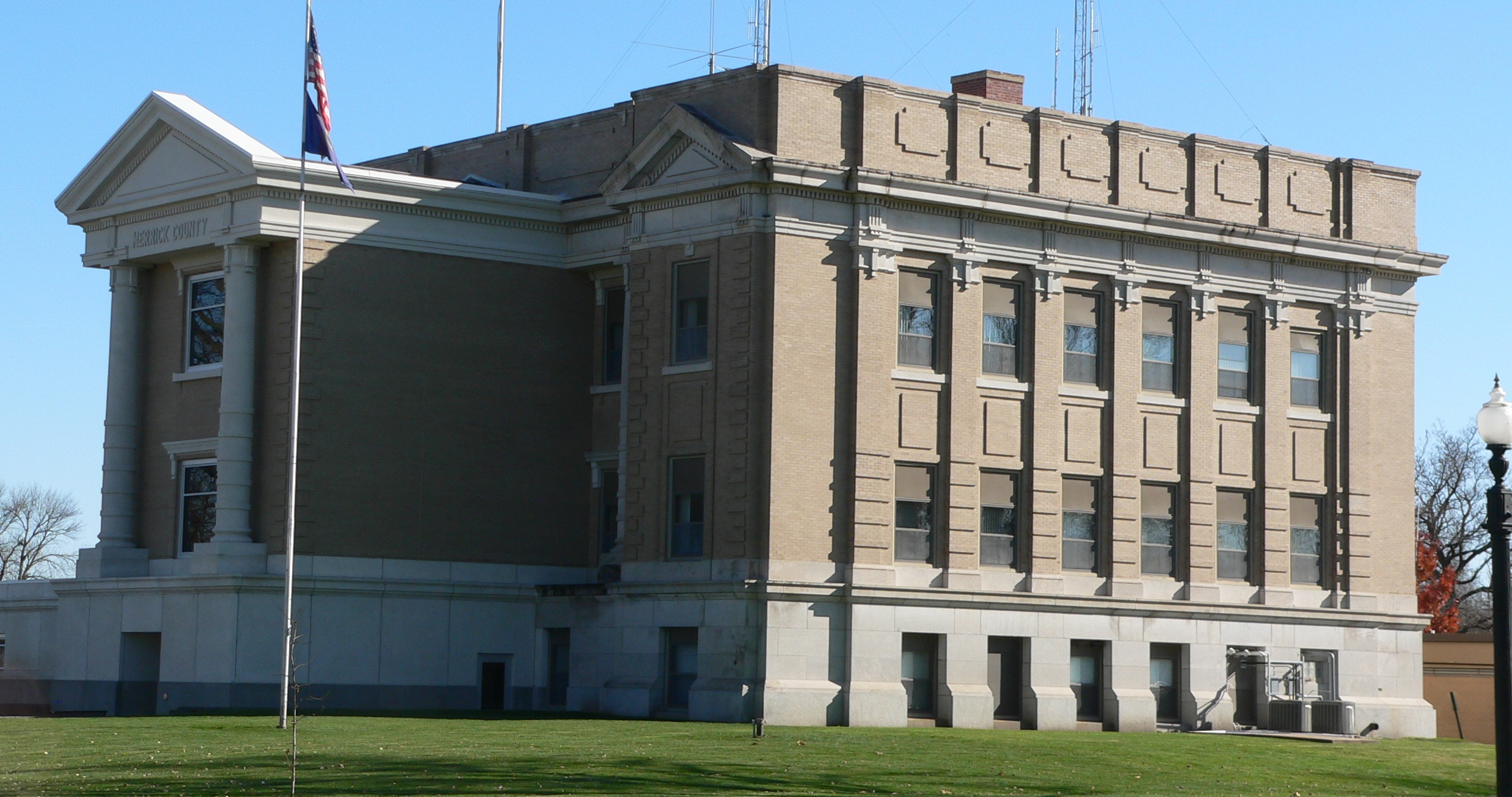 Merrick County Courthouse in Central City, Nebraska, seen from the northwest. The courthouse was designed in Classical Revival style by architect William F. Gernandt and built in 1911. It is listed in the National Register of Historic Places.